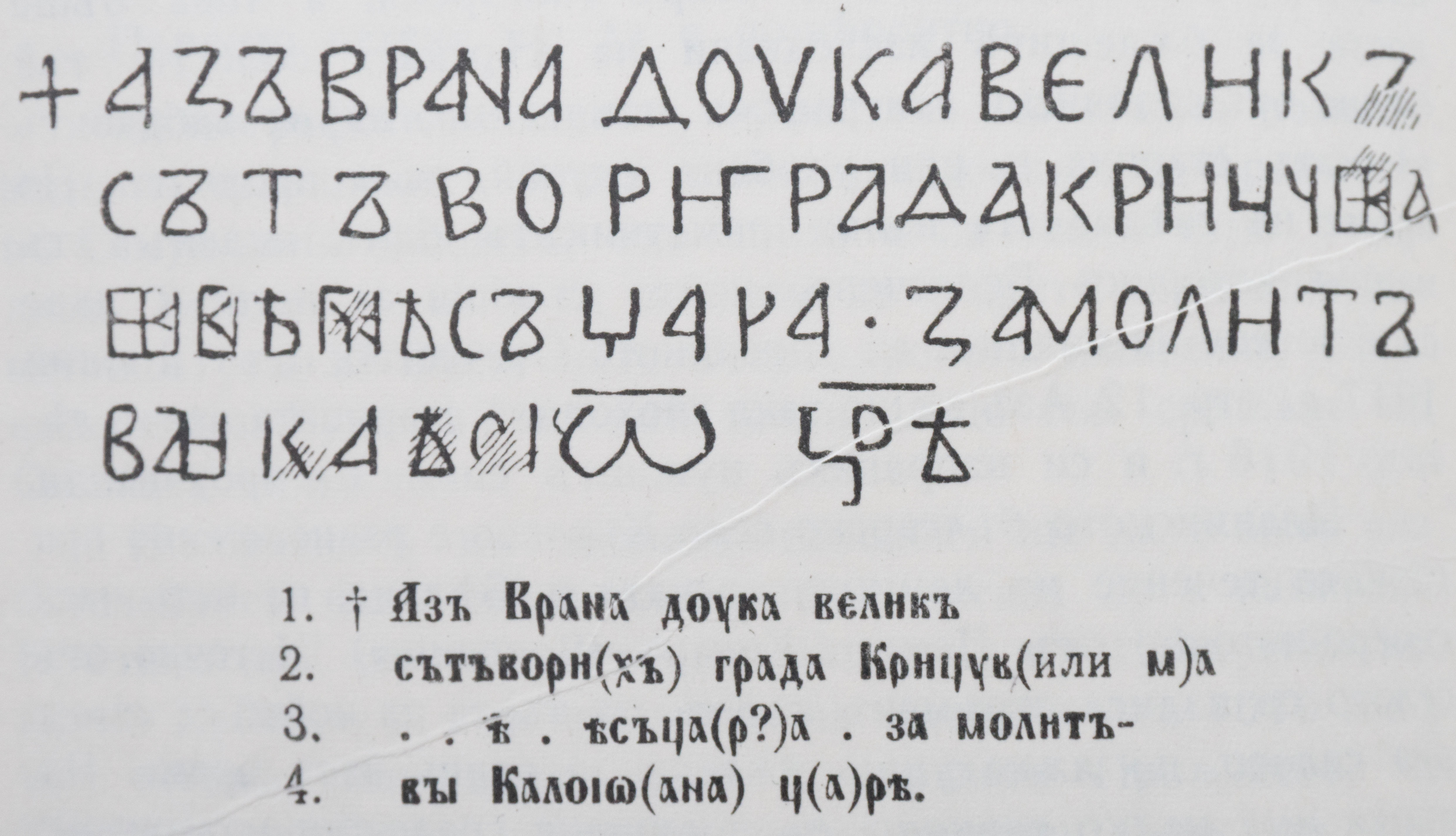 The Karchovo inscription